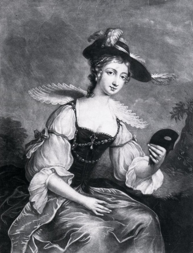 An print of an image of Fanny Murray by Thomas Ross, 1750s